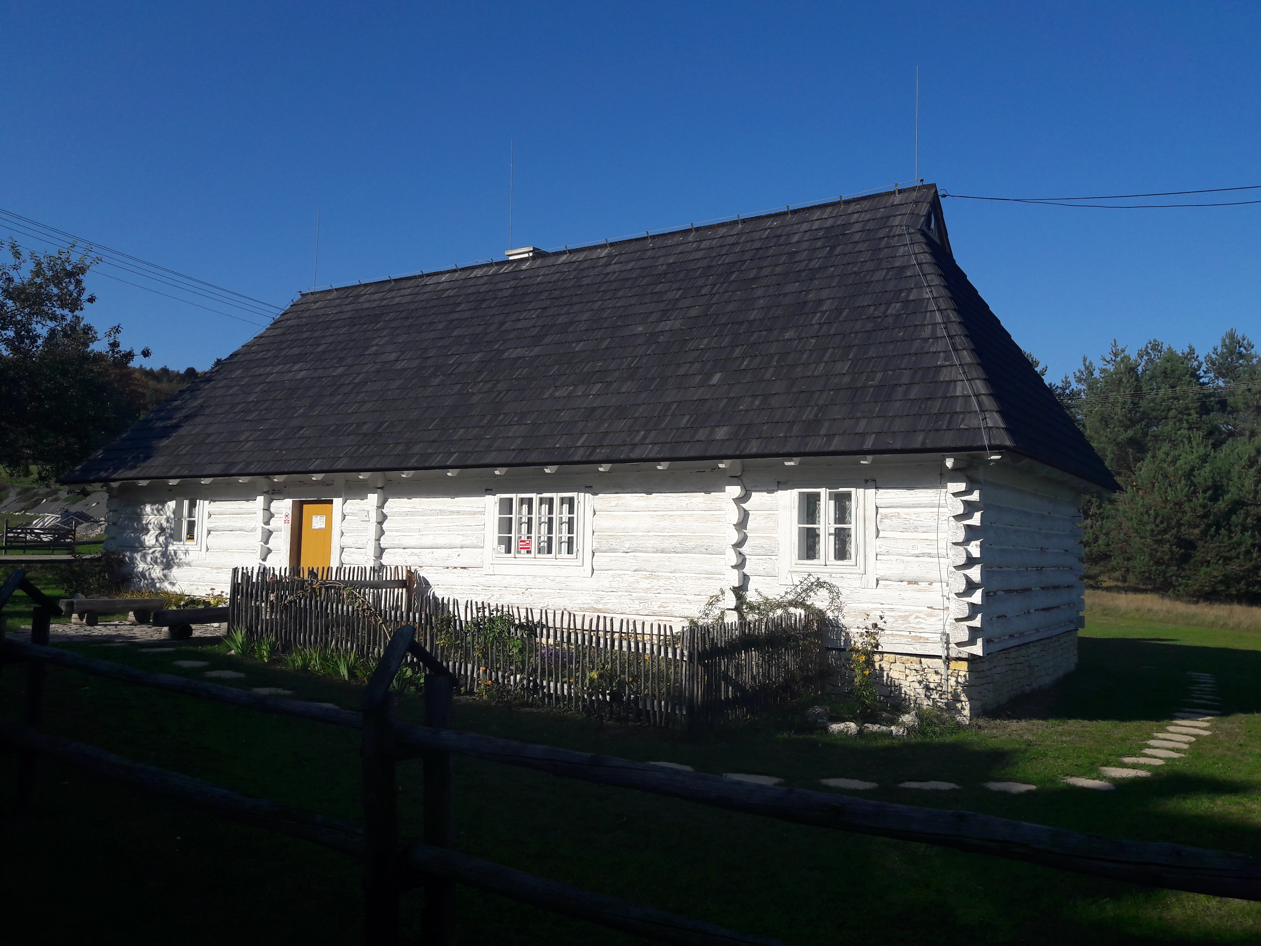 Reconstructed house in which Antoni Kocjan was born, currently museum